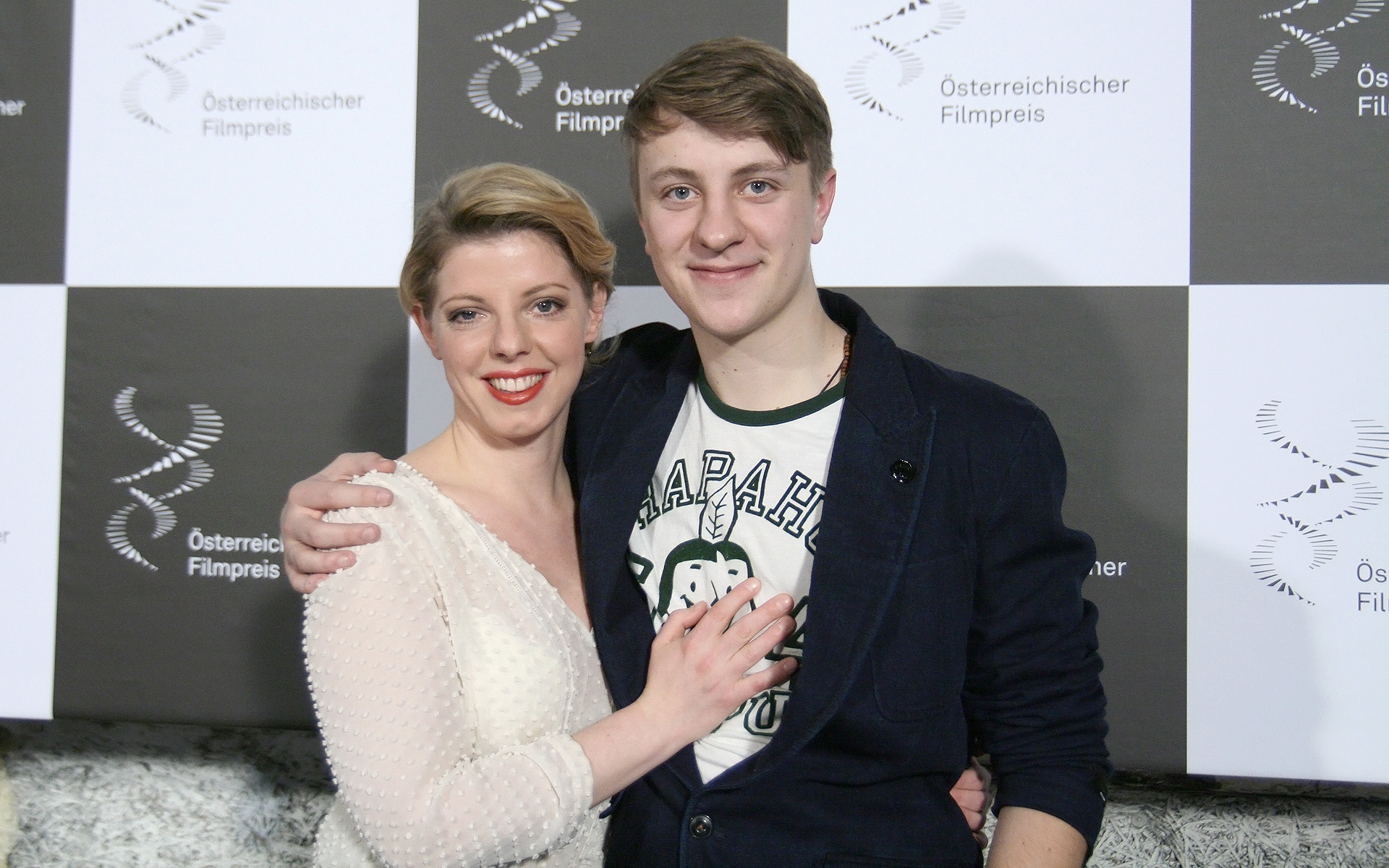 Karin Lischka and Thomas Schubert, Austrian Film Awards 2012 (Vienna).